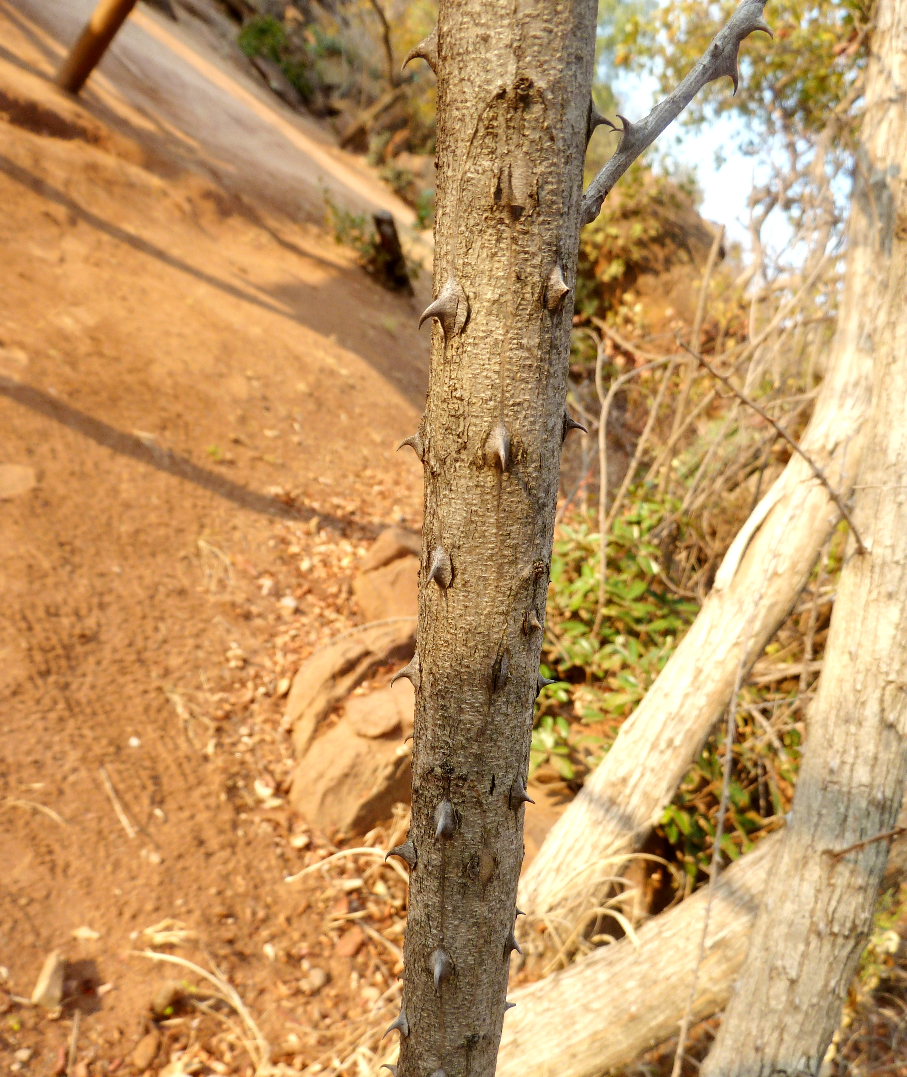 Branch with thorns of a Flame thorn at Little Eden in De Tweedespruit conservancy, Gauteng